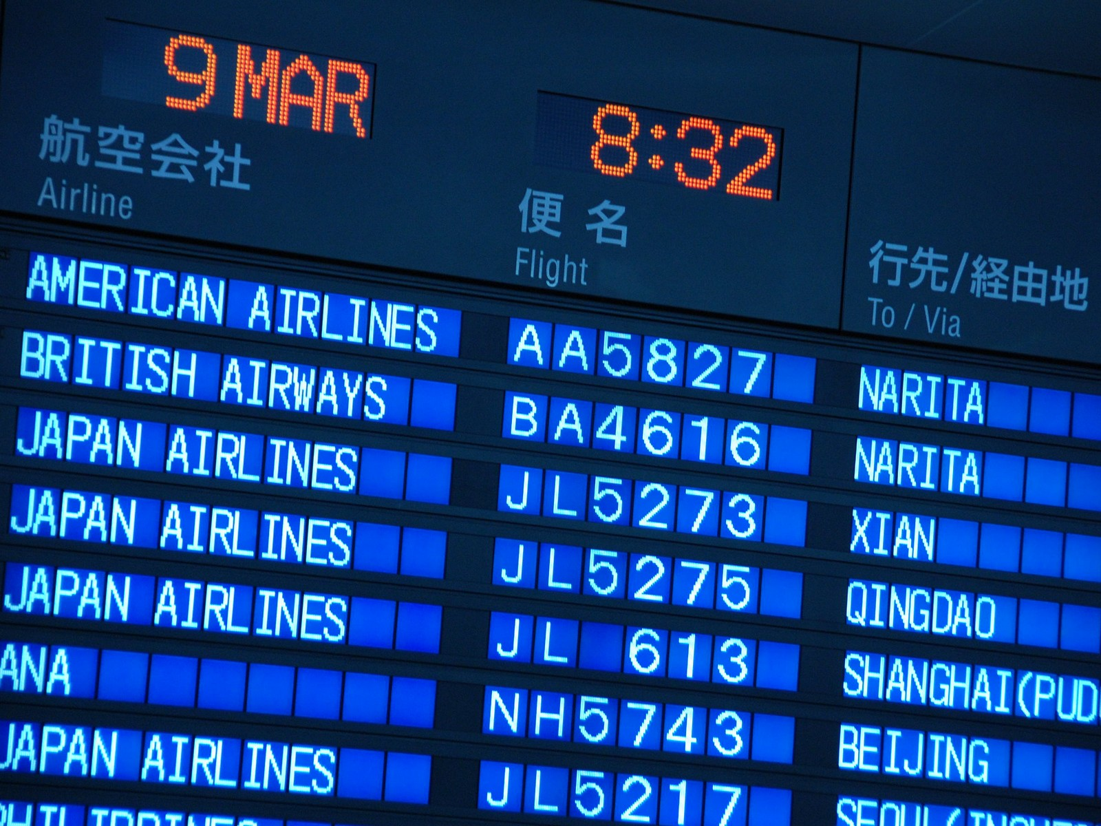 en：Departure Board of Chubu International Airport. ja：セントレアのフライト案内板。 location: Centrair caption: Departure Board （Centrair）